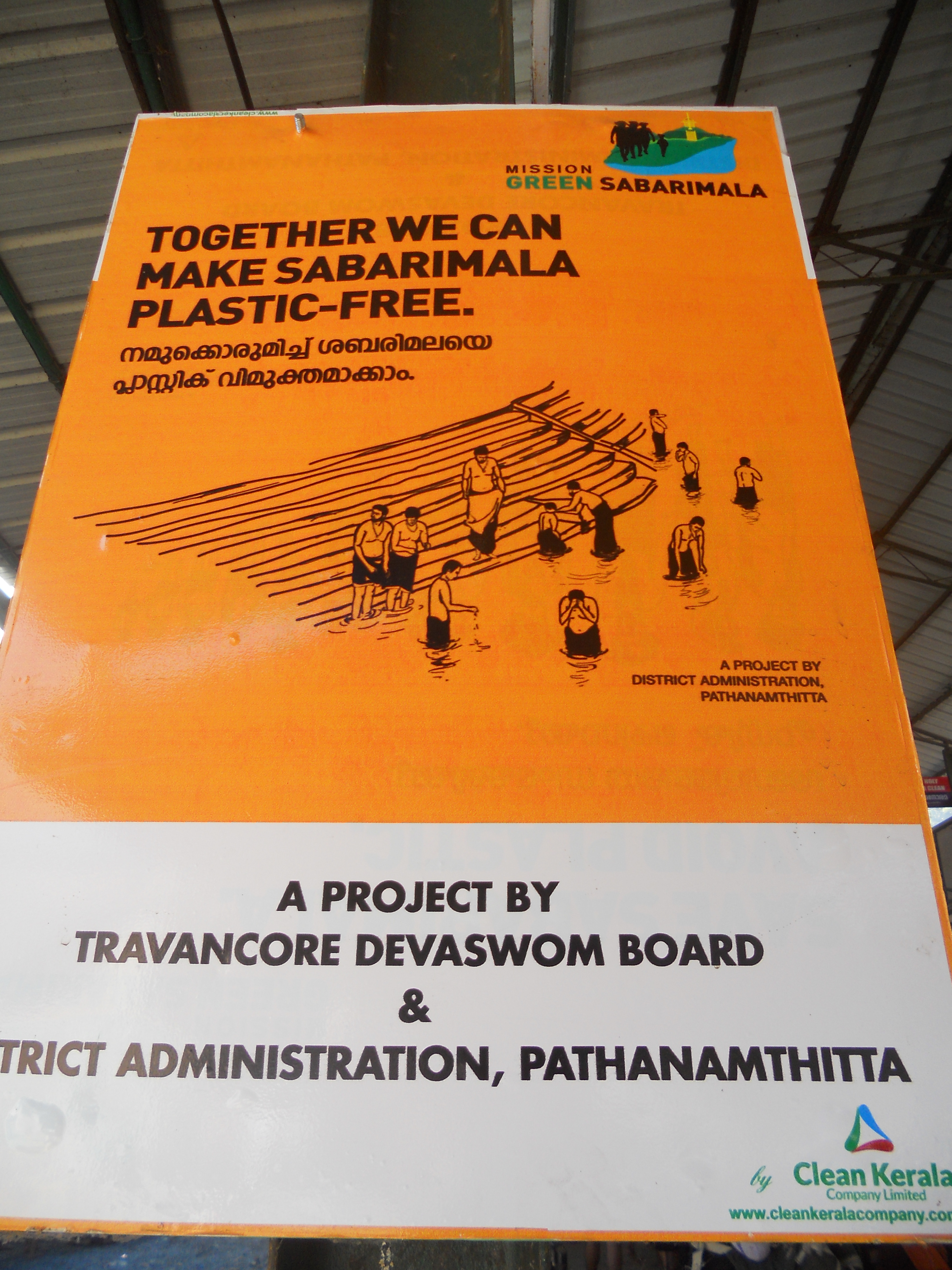 An information signage near the River Pamba bathing ghat at Sabarimala inviting all to join hands in making Sabarimala free from plastic and other wastes, as part of "Mission Green Sabarimala".